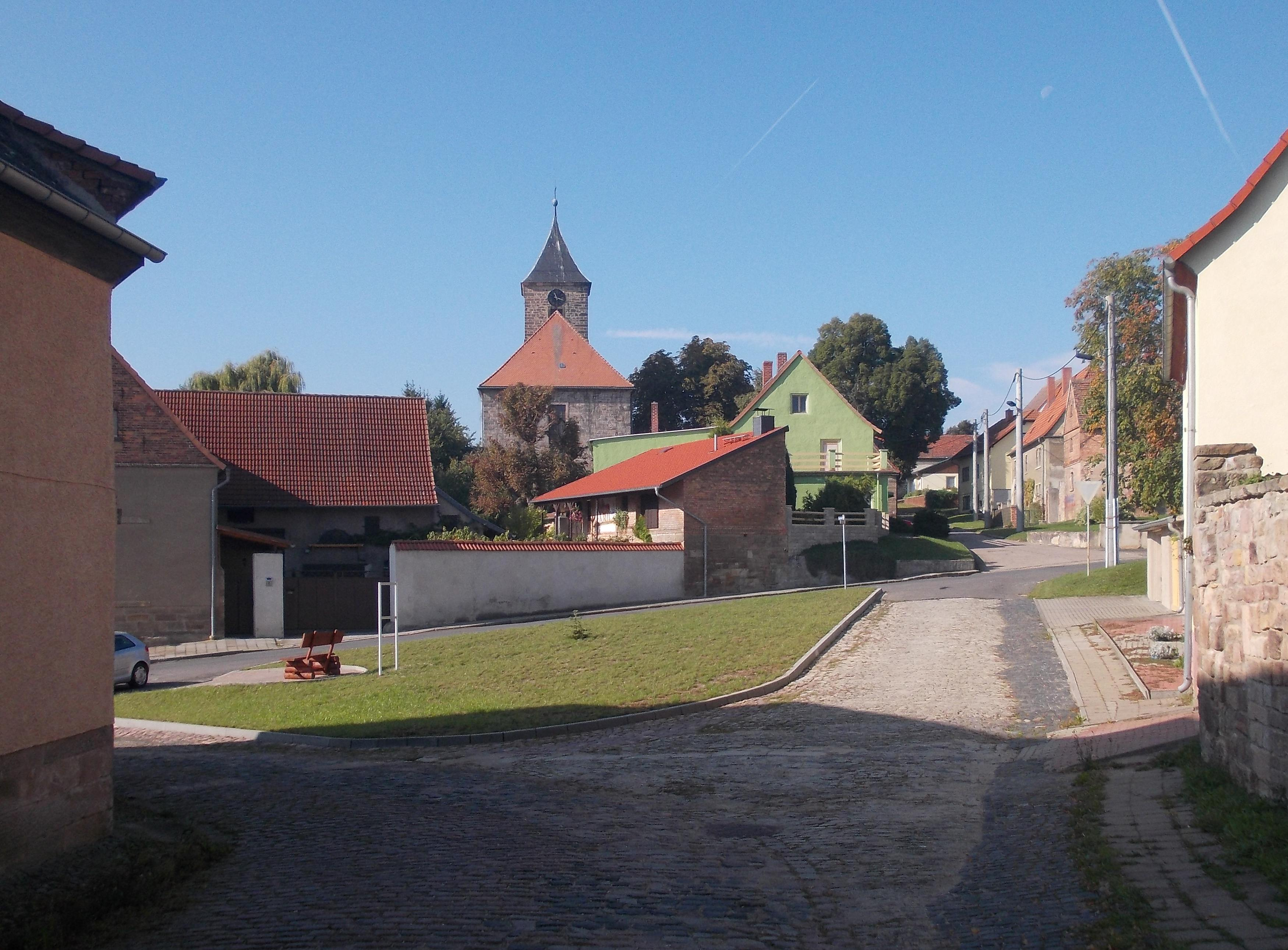 Saints Peter and Paul church in Oberschmon (Querfurt, district: Saalekreis, Saxony-Anhalt)